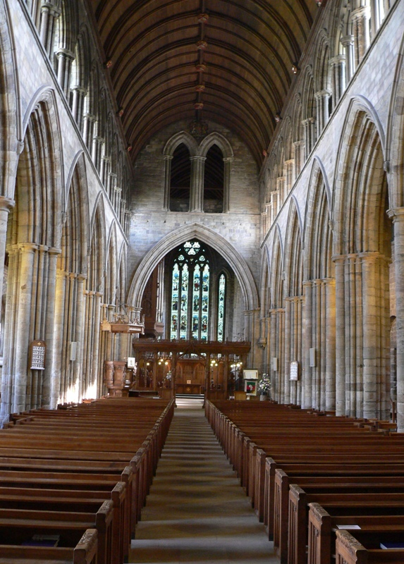 Dunblane Cathedral, Perth and Kinross, Scotland - nave